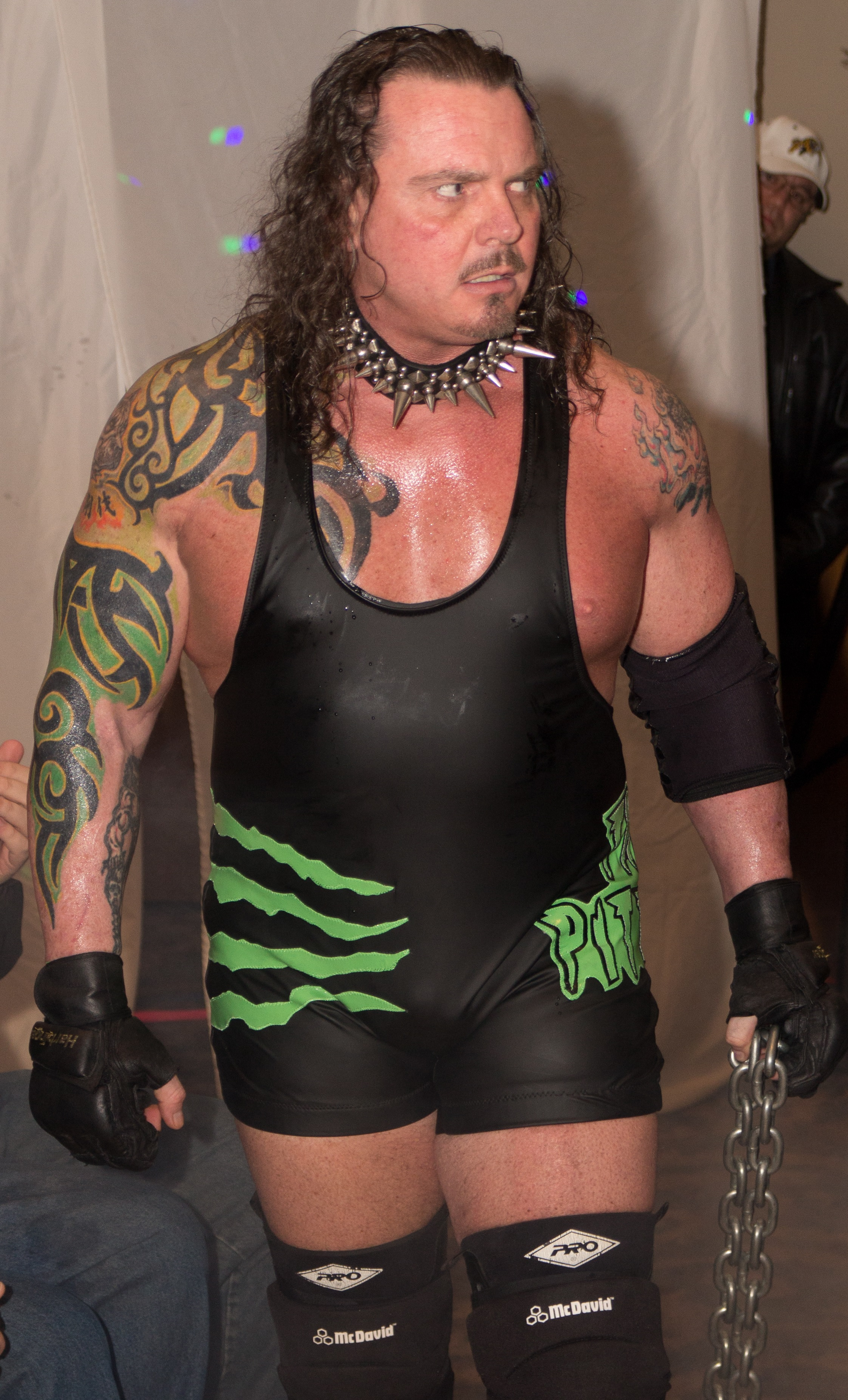 Pitbull Gary Wolfe making his entrance at the Hardcore Roadtrip's Banned in the USA show in London, ON